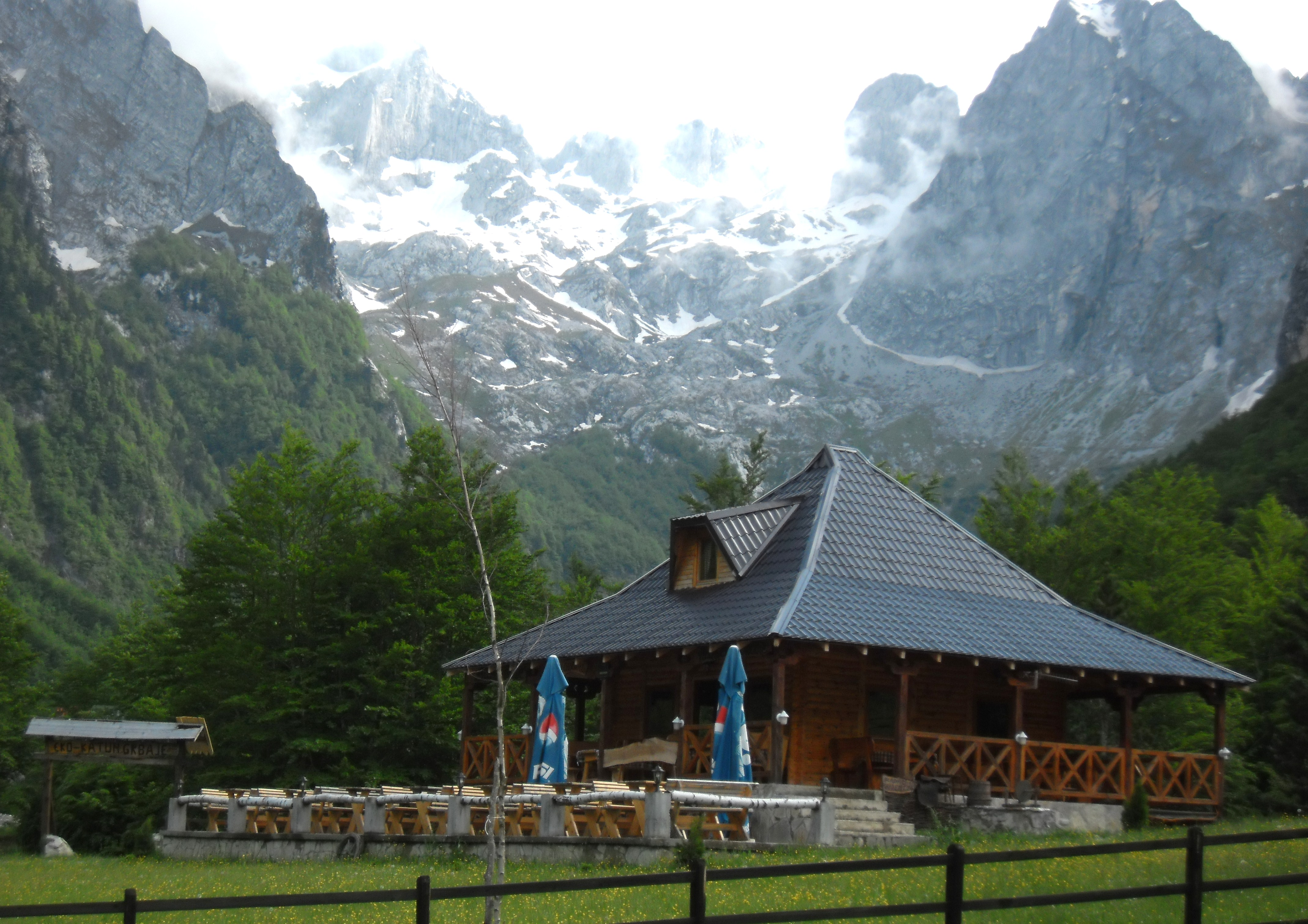 Restaurant Grebaje